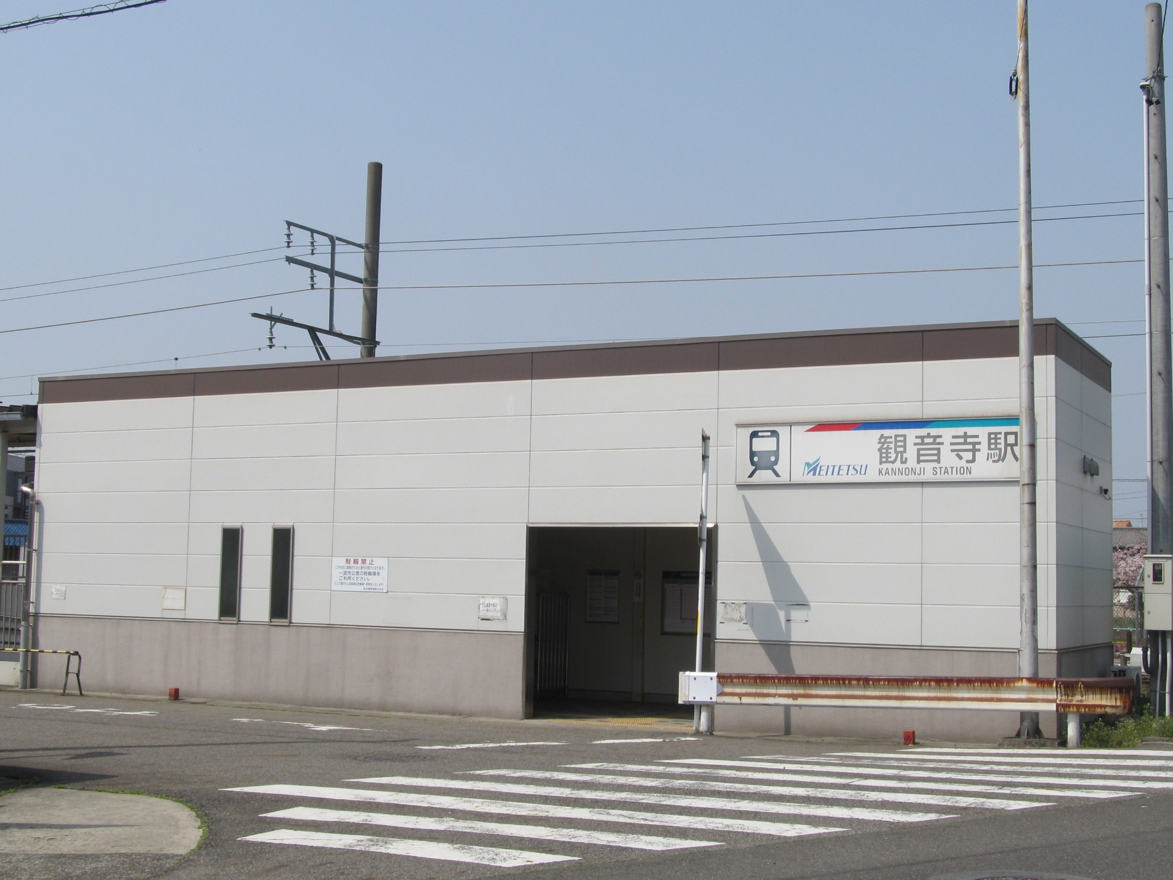 Nagoya Railroad Bisai Line Kannonji Station Building.